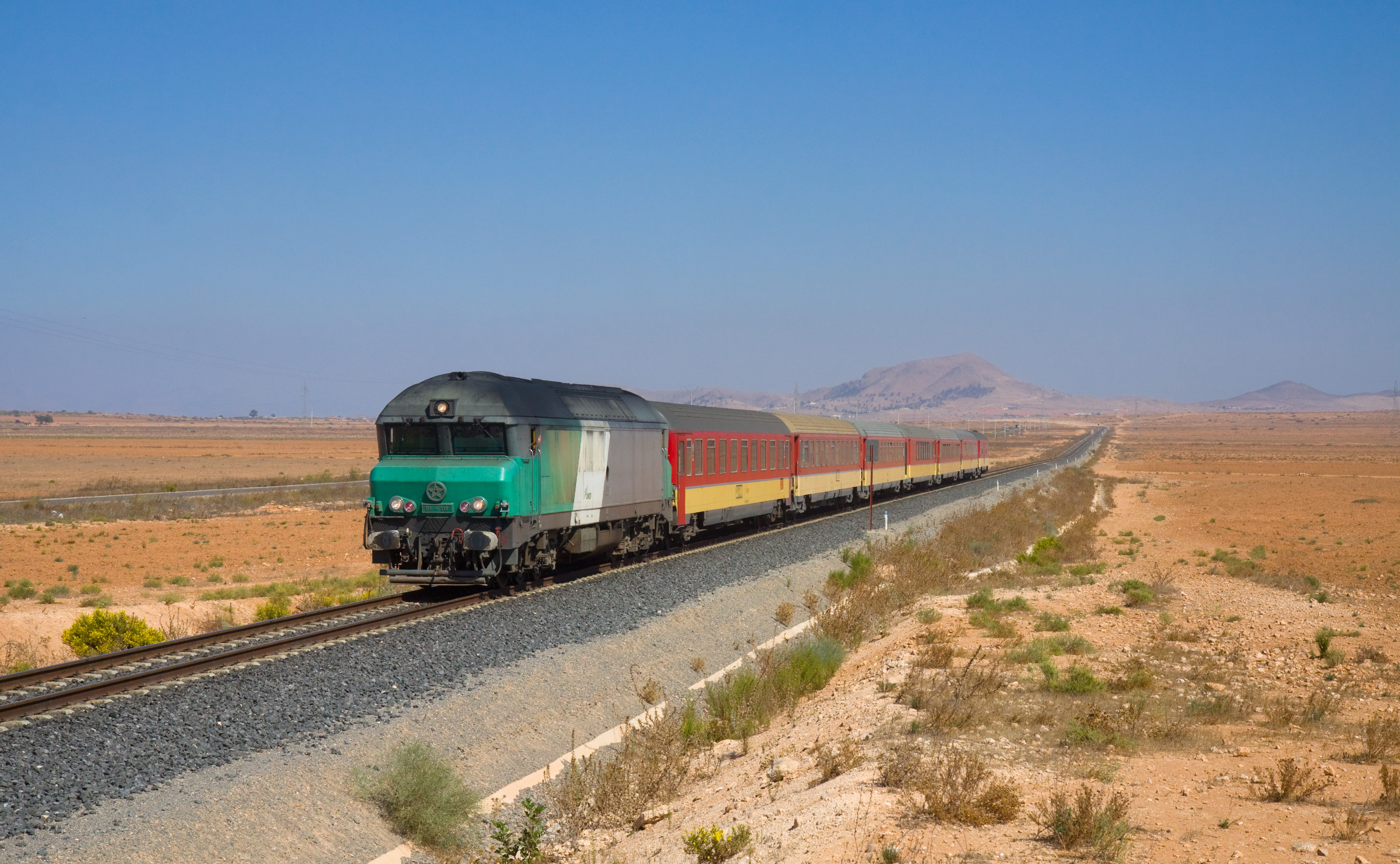 Former SNCF Fret CC 72000, now ONCF DF 118, with the daily passenger train from Beni Enzar (near Nador) to Fez via Taourirt. The picture was taken between Hassi Berkane and Oulad Rahou.